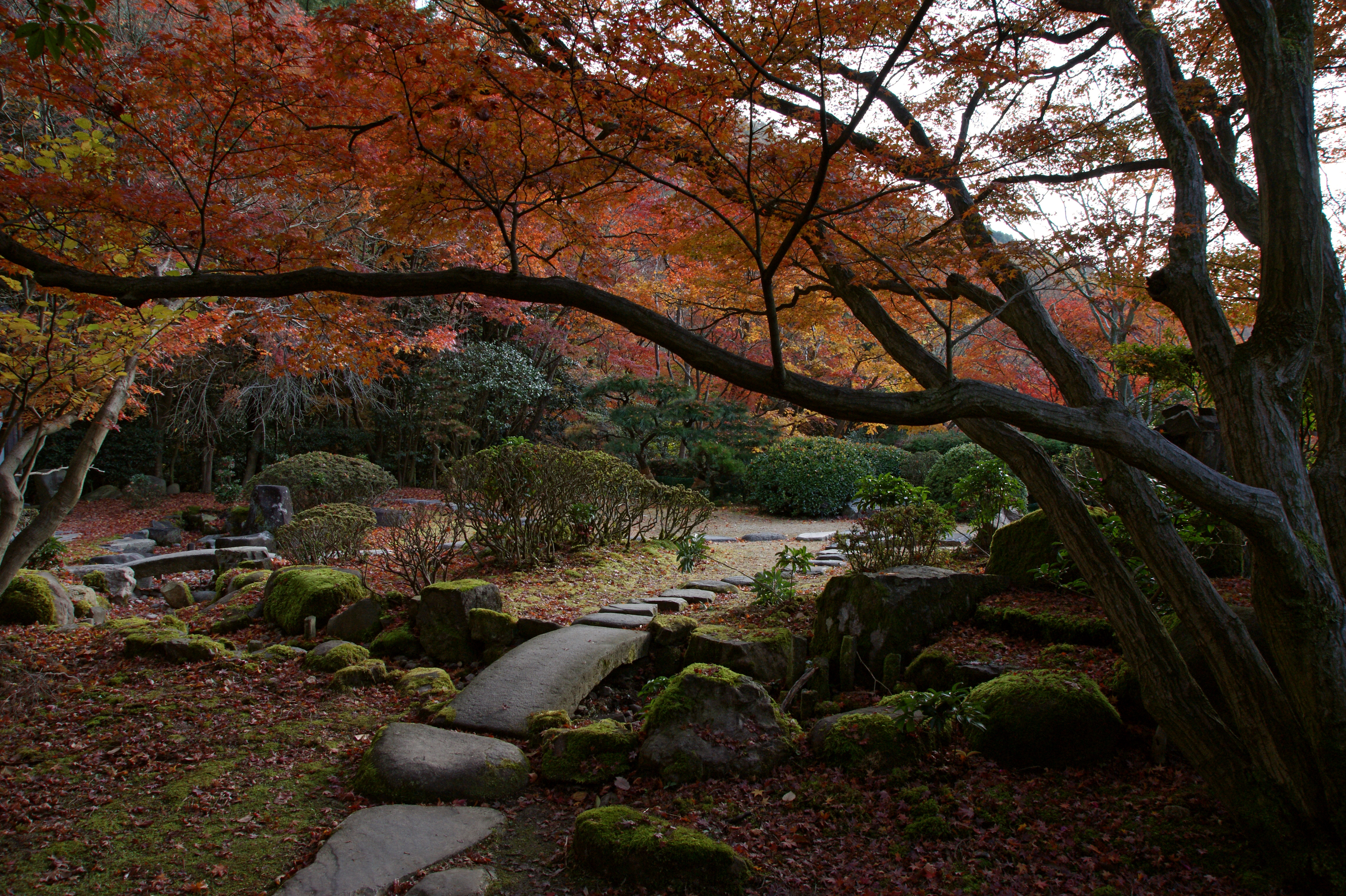 Shuentei, Tatsuno, Hyogo prefecture, Japan